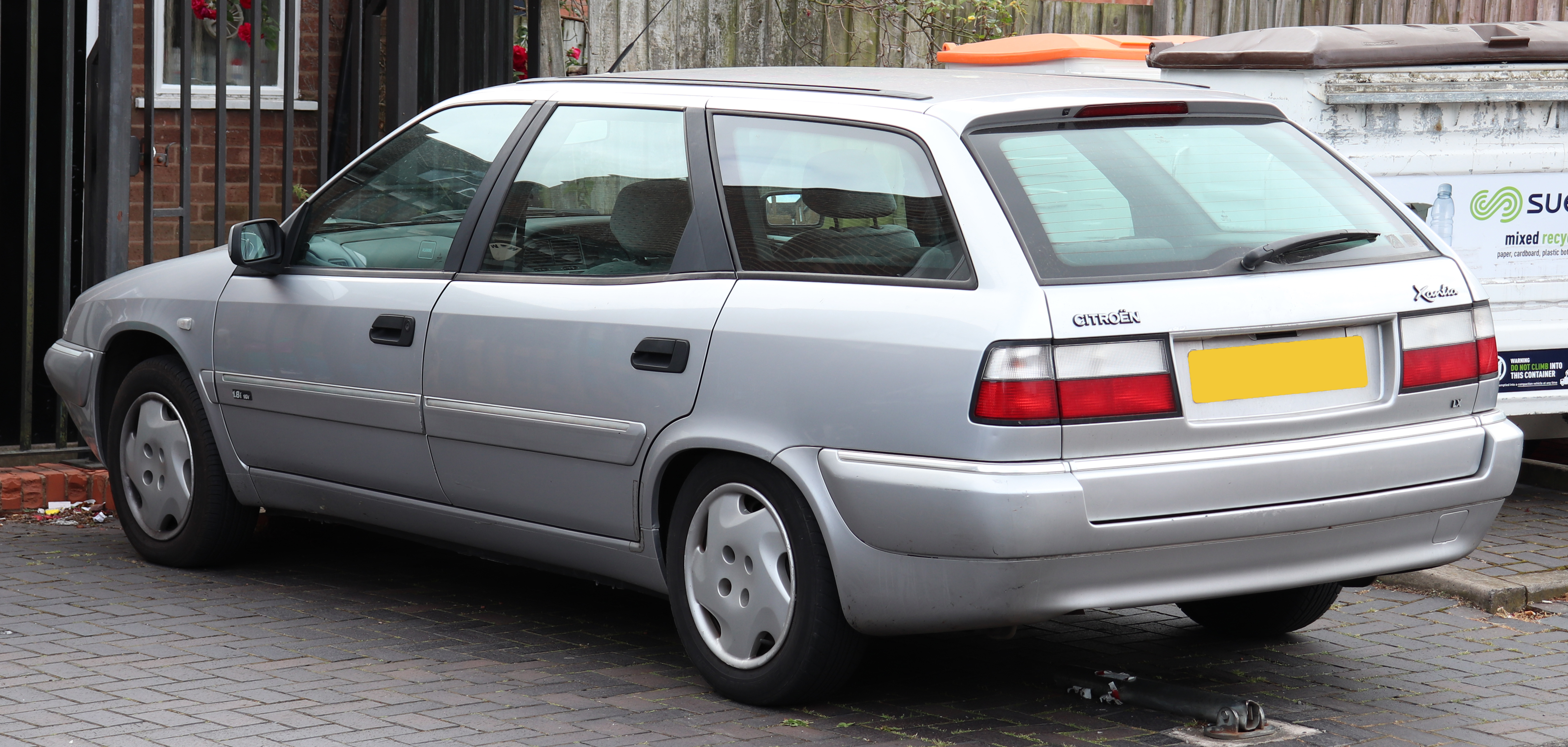 2001 Citroen Xantia Forte Estate 1.8 Taken in Warwick